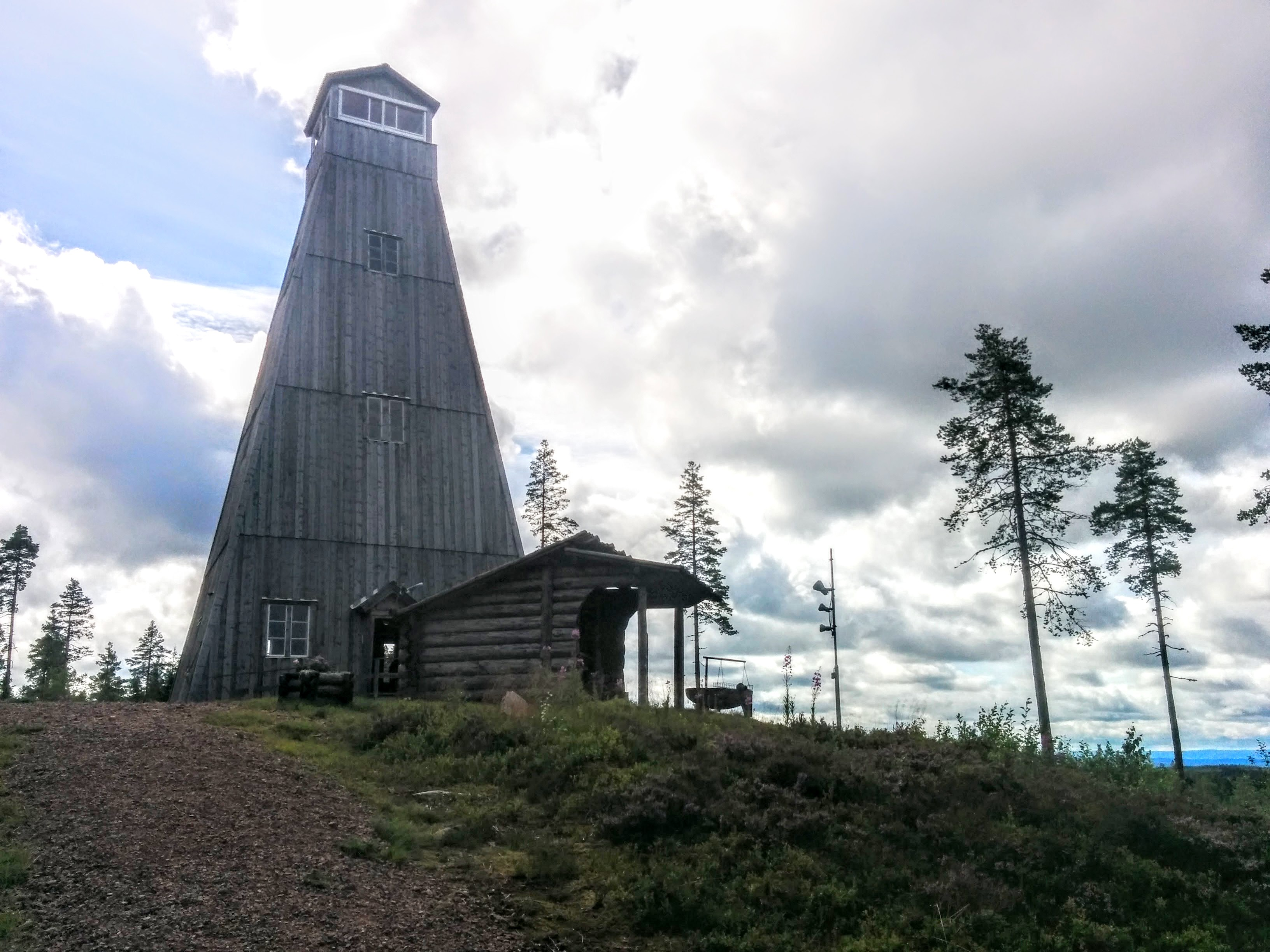 A picture of Bunkris fire tower in Älvdalens kommun, Dalarna, Sweden.